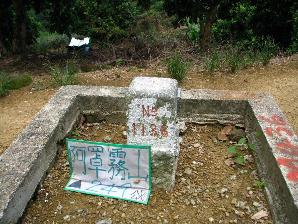 A hill in Taichung, Taiwan.